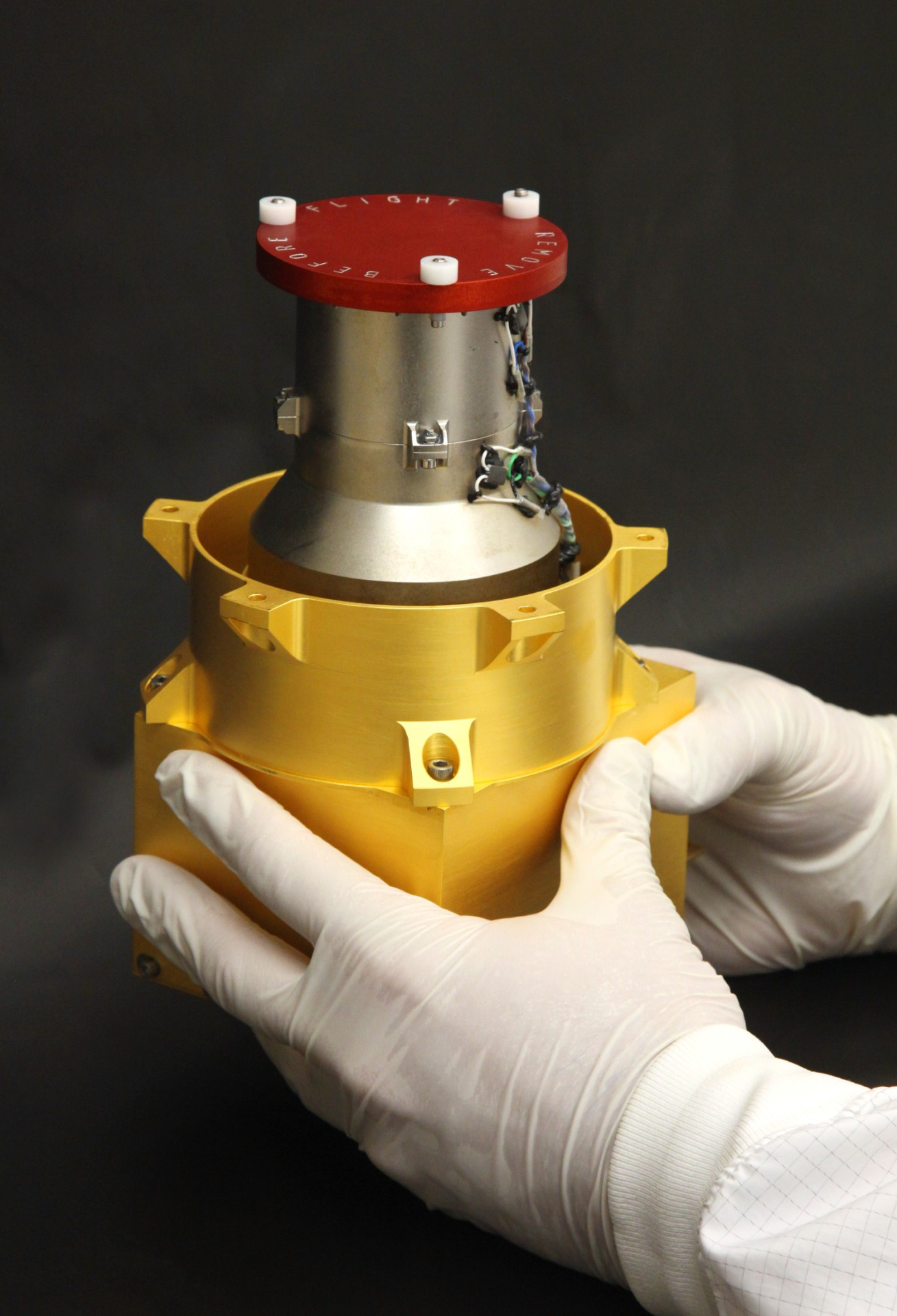 Radiation Assessment Detector for Mars Science Laboratory